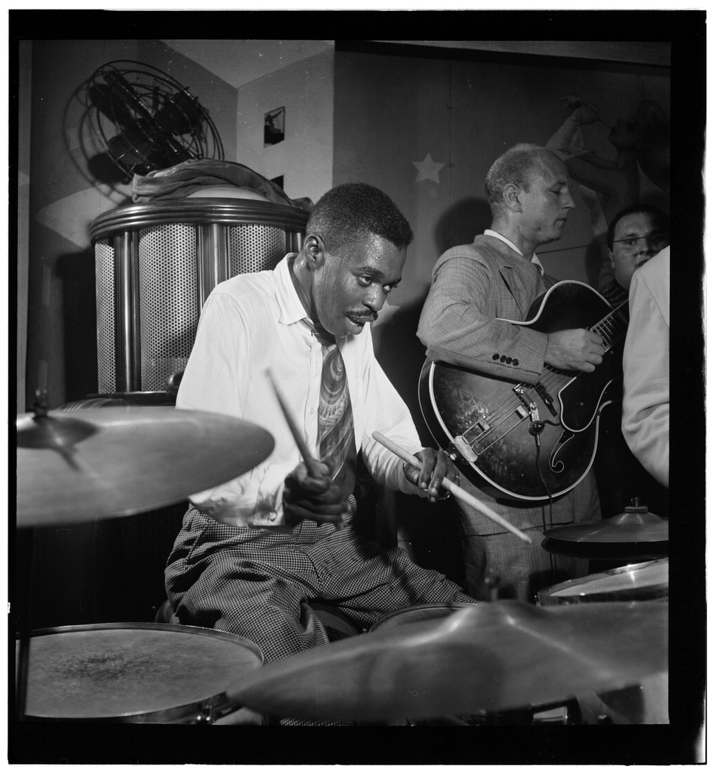 Denzil Best, Billy Bauer, and Chubby Jackson, Pied Piper, New York